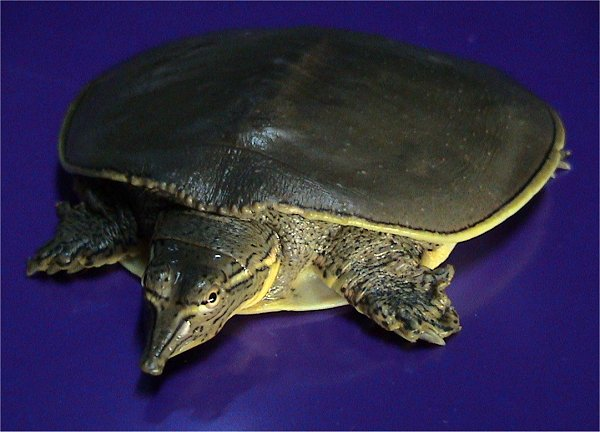 Spiny Softshell Turtle, Apalone spinifera